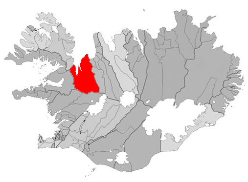 Based on Municipalities of Iceland.png.